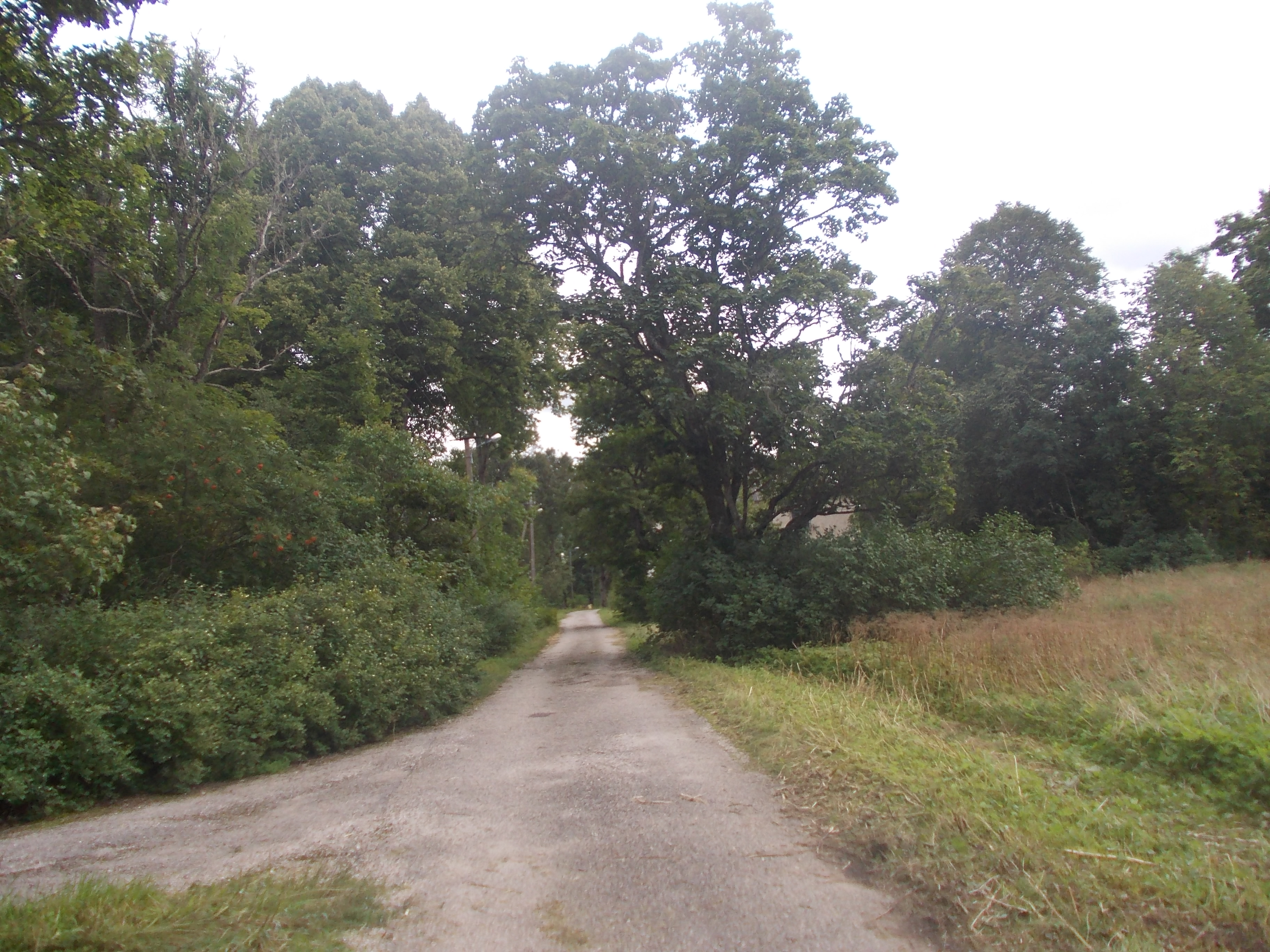 Park of Munalaskme manor